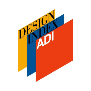 ADI Design Index Award